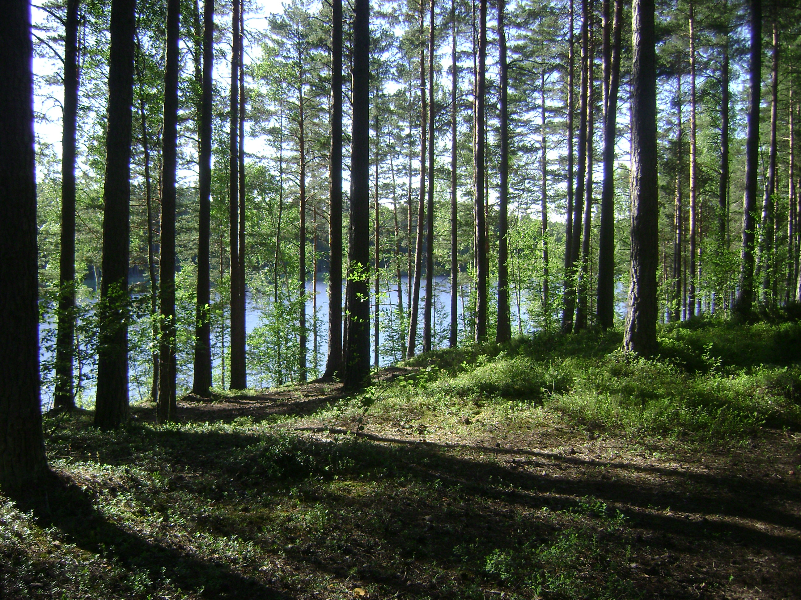 Sweden. Stockholm County. Haninge Municipality. Handen